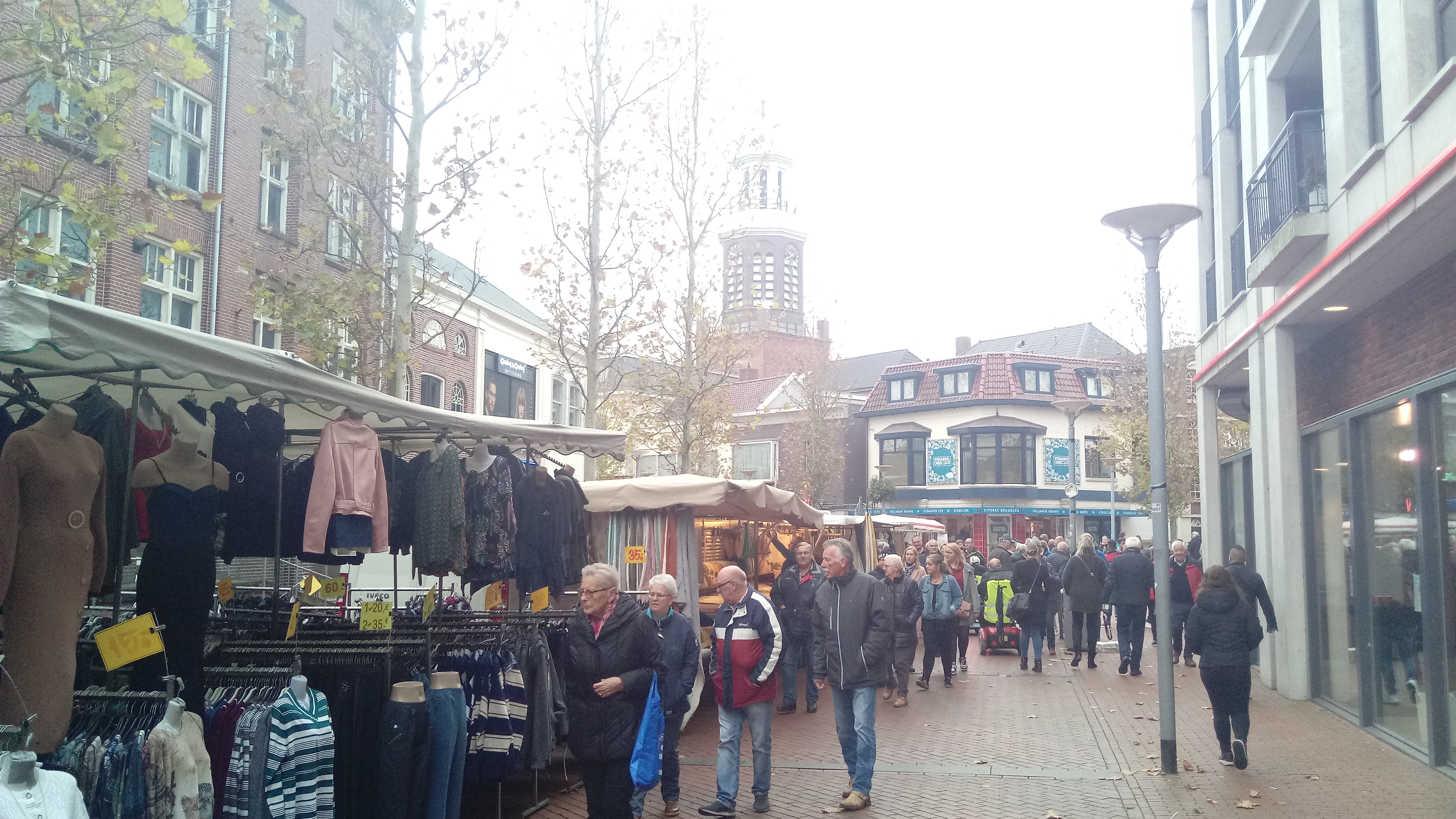 A local annual market for All Saints' Day known as the "Adrillen" or "Allerheiligenmarkt" in the Groninger city of Winschoten, Oldambt.